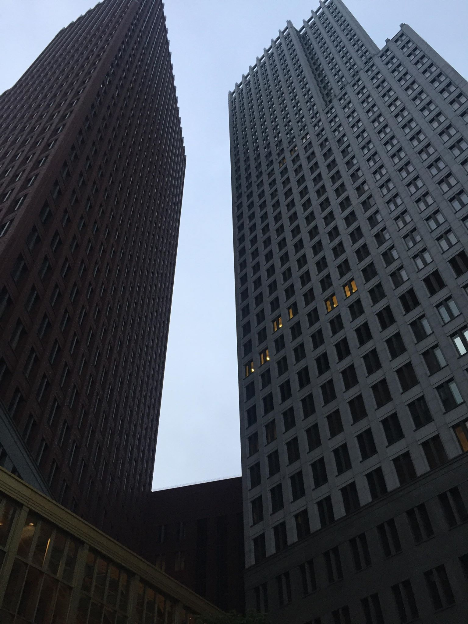 Ministry of Justice and Security